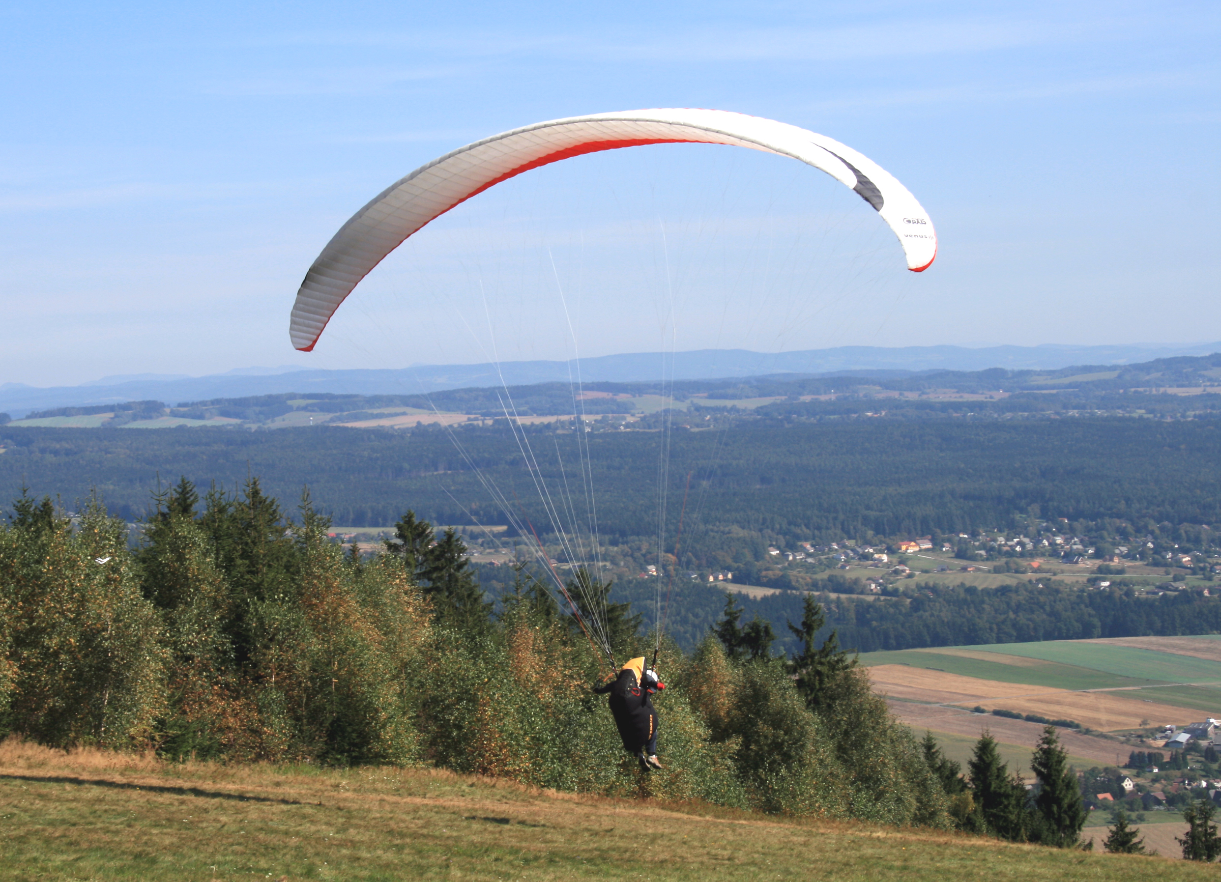 Paraglider on the hill Zvičina in east Bohemia, Czech Republic